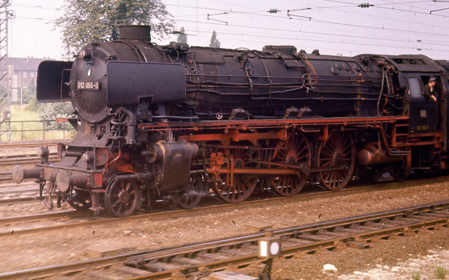 DB Class 012 running light at Rheine.